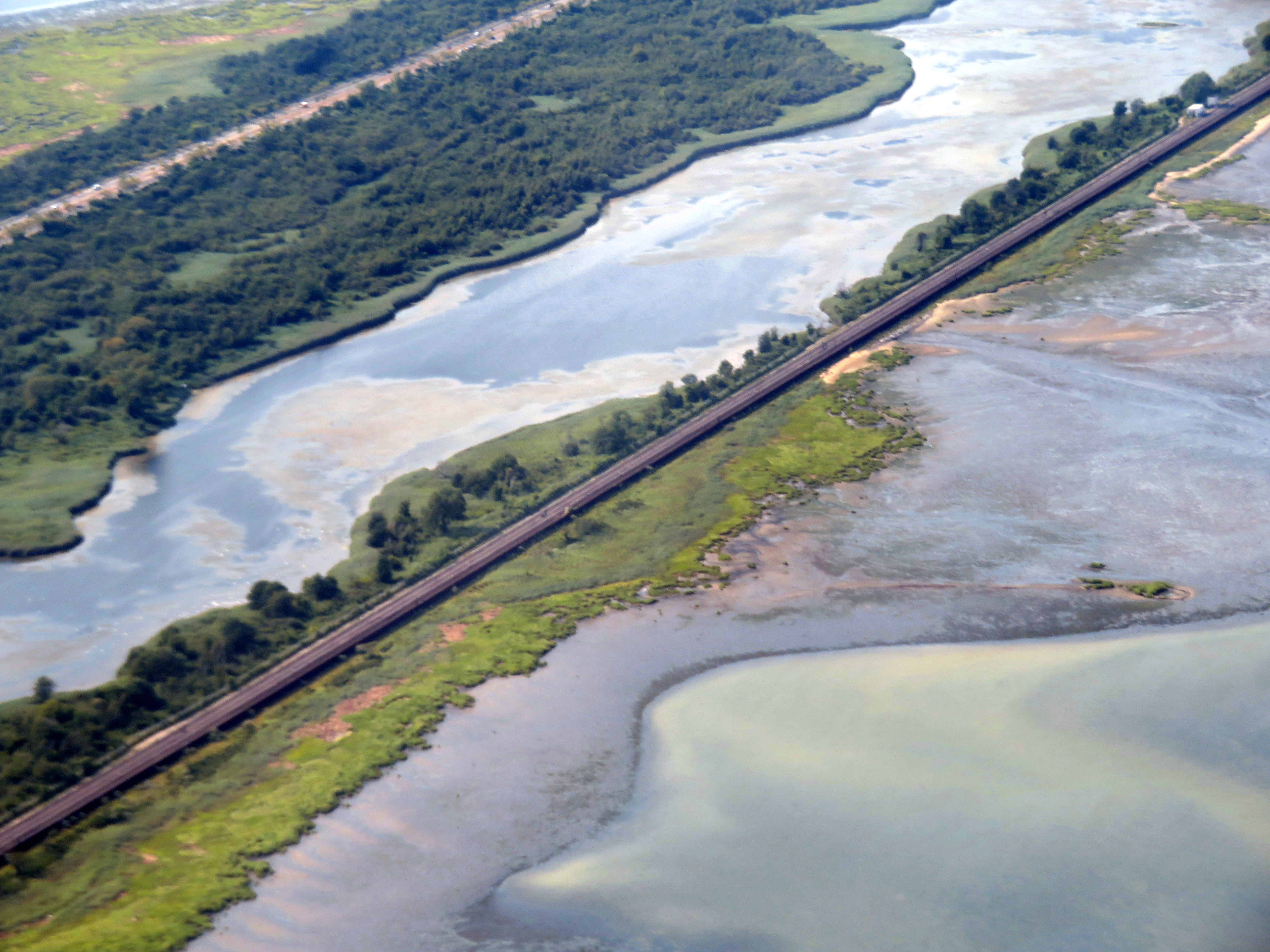 Aerial view of the former location of The Raunt station in August 2019